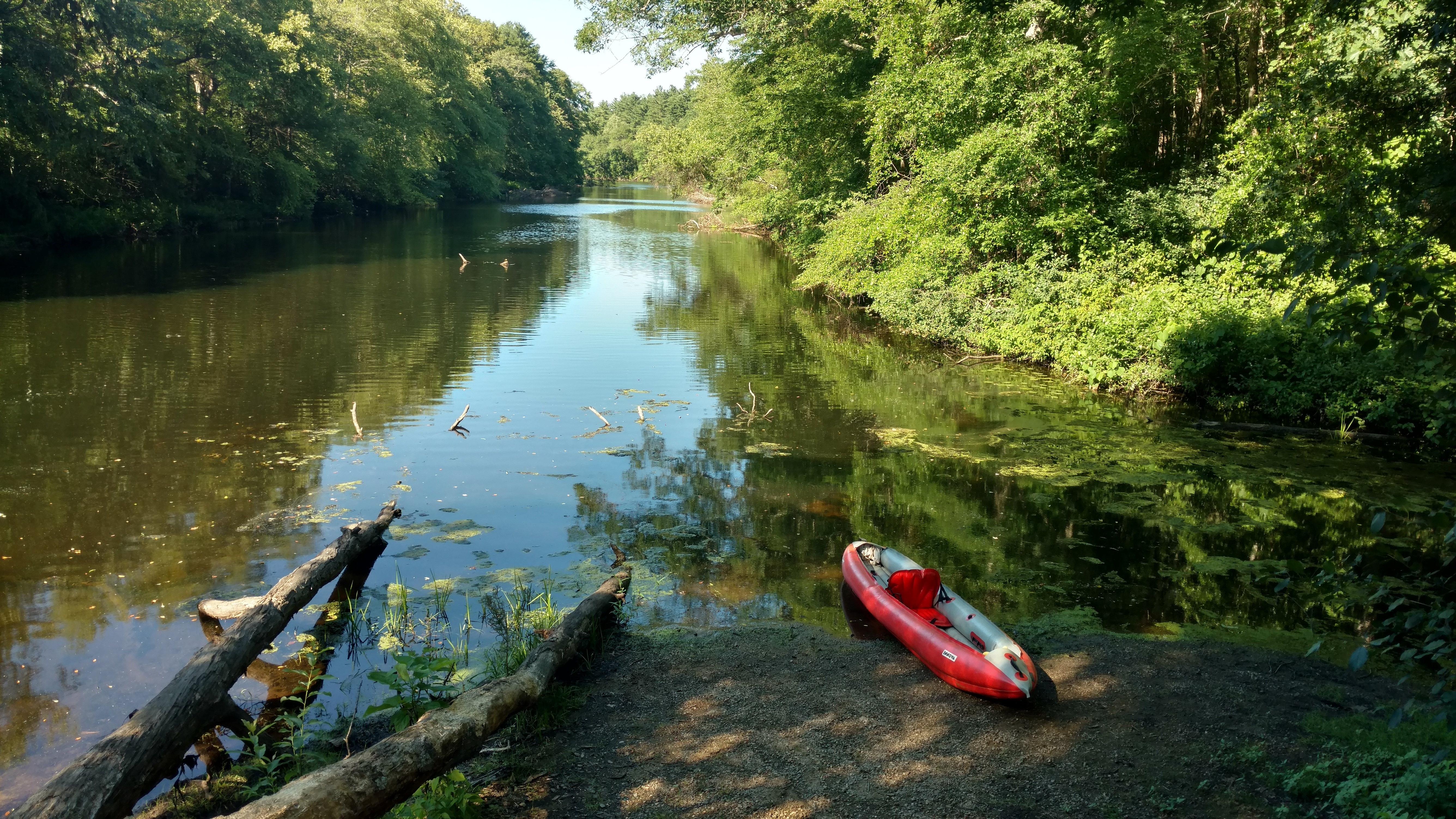 Canoe launch site on the Charles River at Elm Bank in Wellesley, Massachusetts